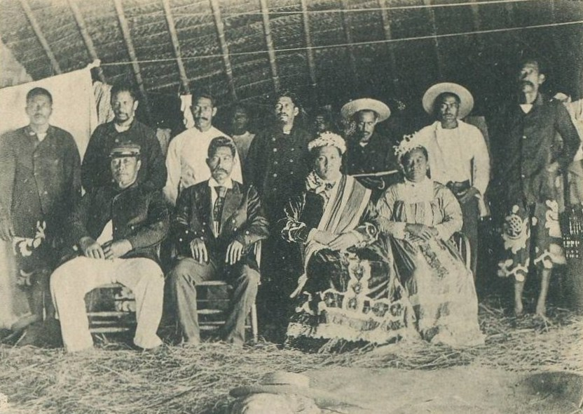 Raiatea - Queen Tuarii and Council at Avera. See Patrick O'Reilly (1975) Tahiti Au Temps Des Cartes Postales, Paris: Nouvelles Editions Latines, p. Page 105 ISBN: 0931897041. .